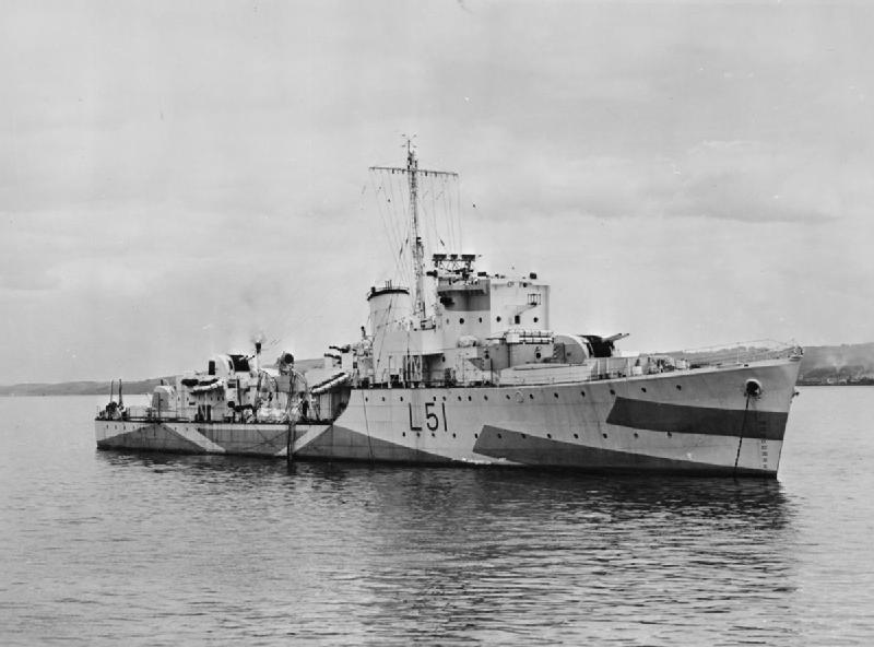 Photograph of British Hunt class destroyer HMS Brahmam, on the River Clyde.